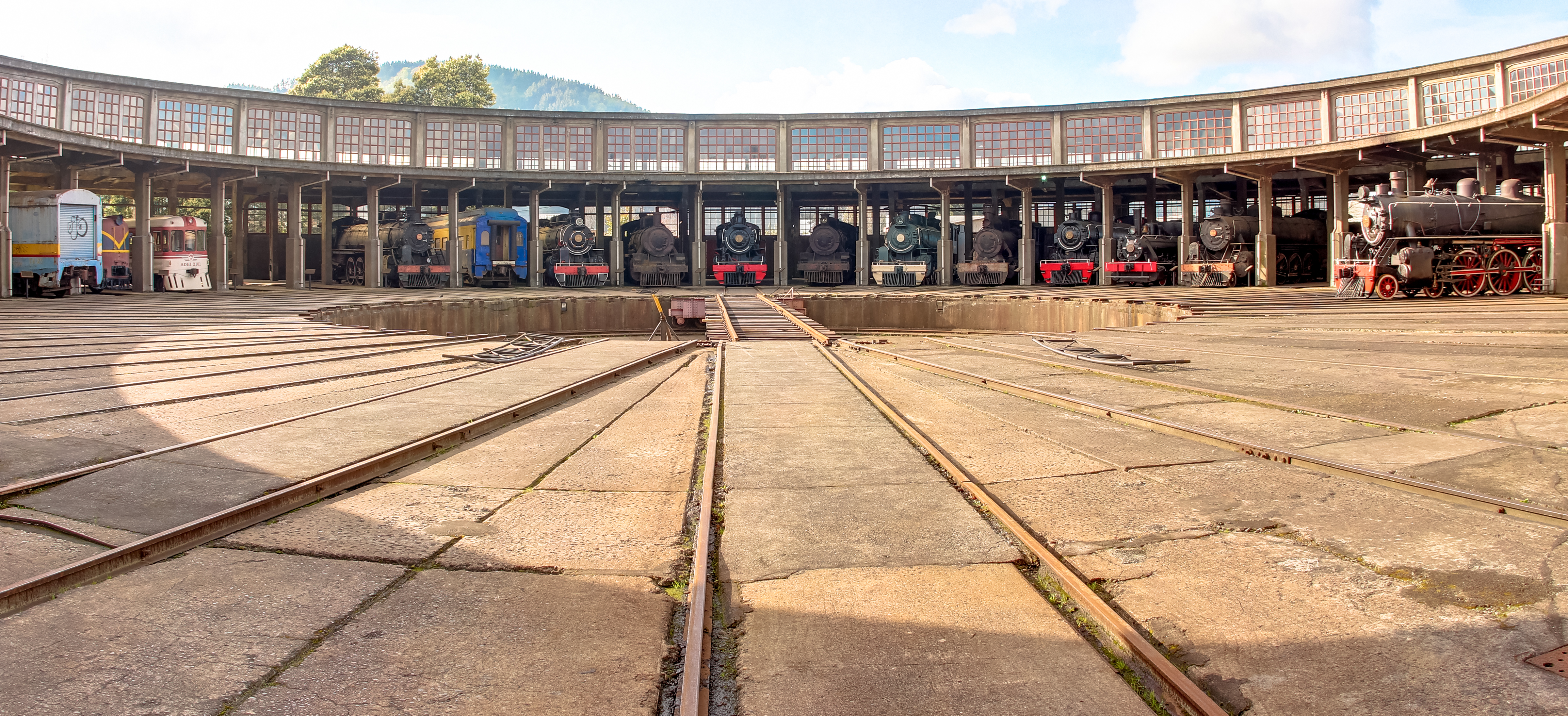 This is a photo of a national monument in Chile: 161